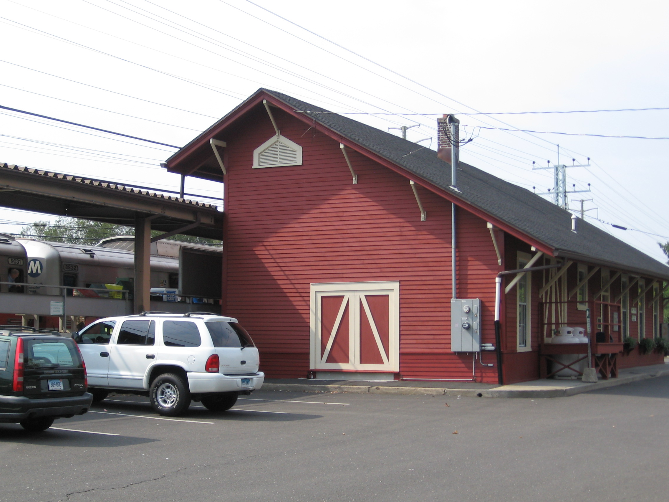 East side of the Old Greenwich Railroad Station in the Old Greenwich section of Greenwich, Connecticut. The station house looks very much like the Cos Cob railroad station although there are minor architectural differences.